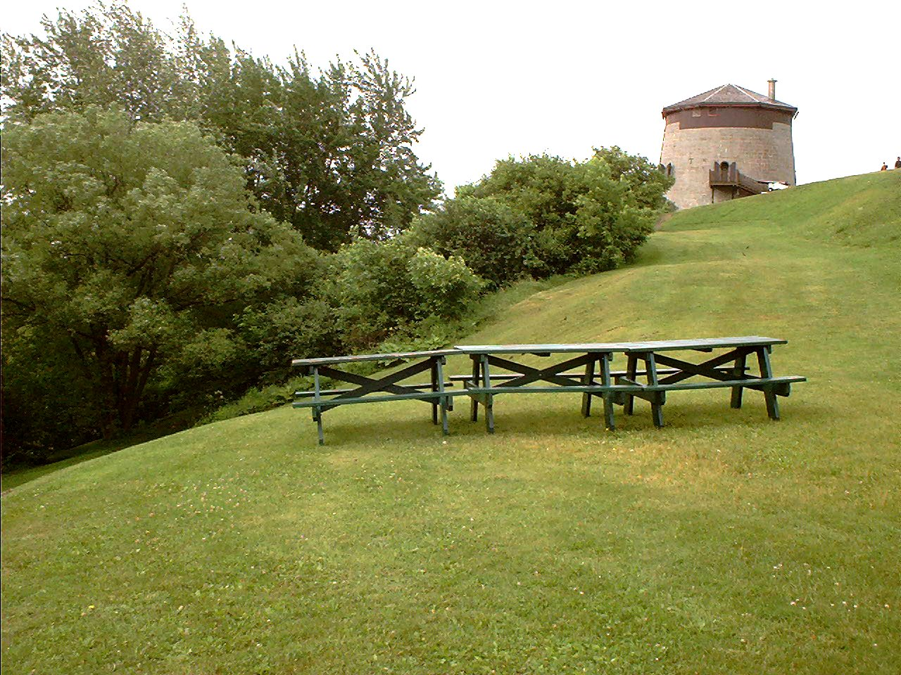 Photo of picnic tables and a Martello tower (# 1) in The Battlefields Park on the Plains of Abraham. Photo taken on June 23, 2006, by Skarg